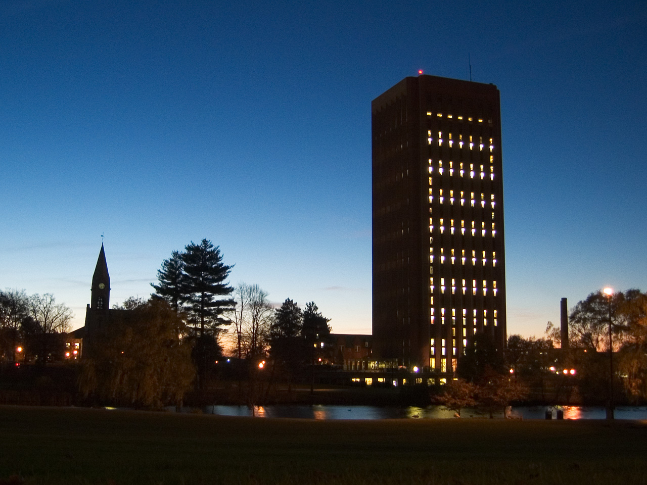 University of Massachusetts Amherst: Chapel and Library in the evening